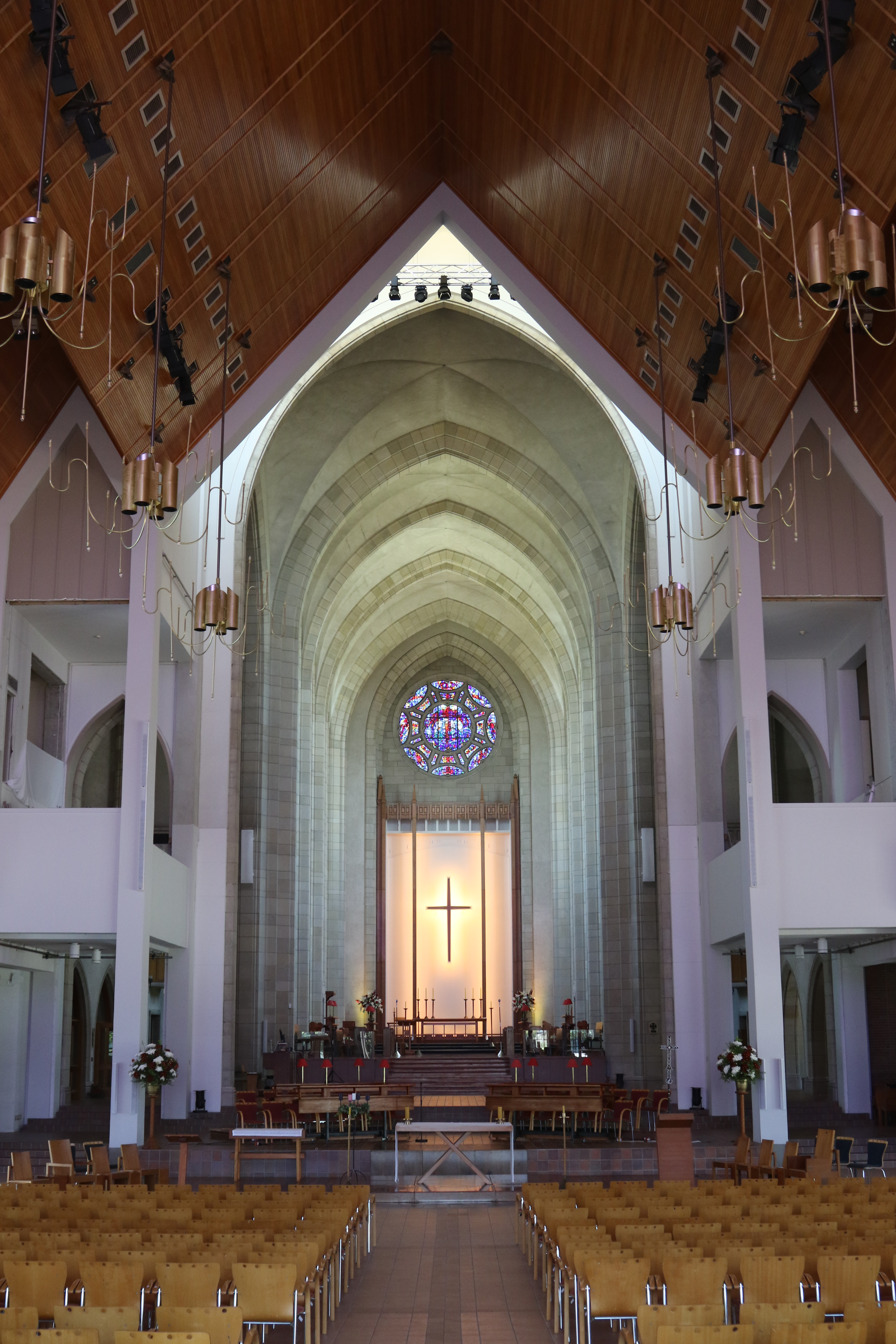 Chancel of Holy Trinity Cathedral, Auckland